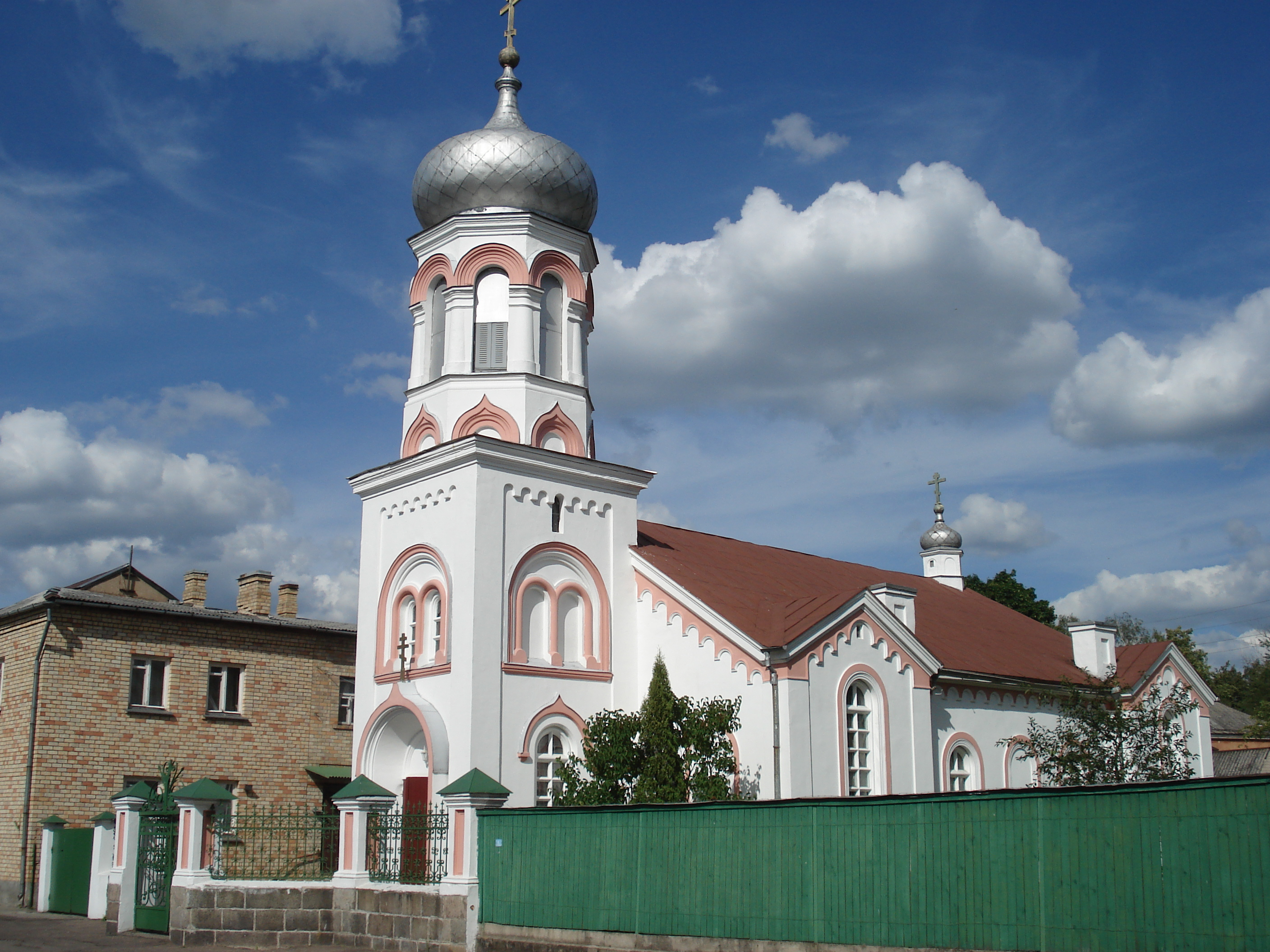 Gayok Old Believers' House of Prayer